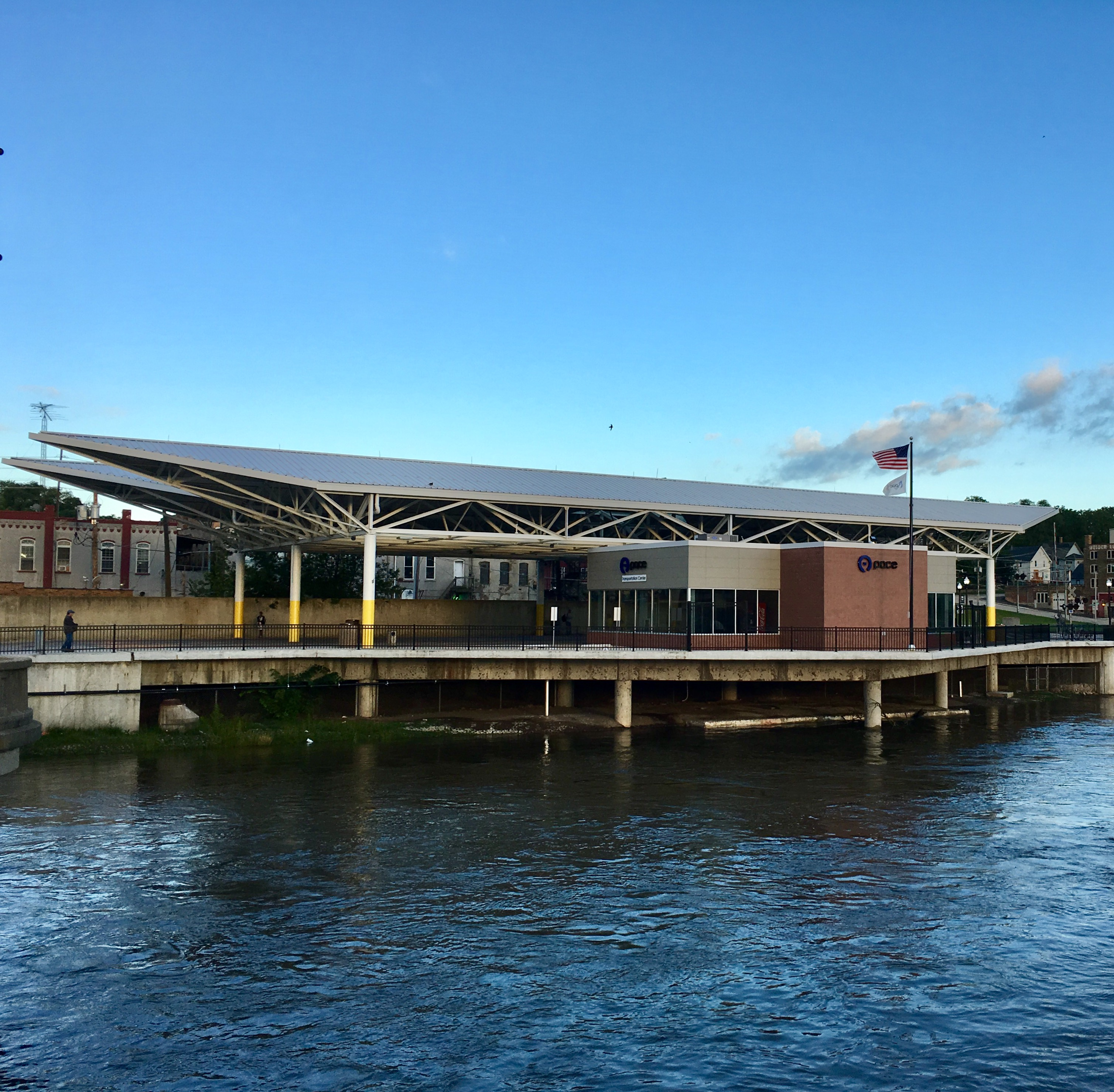 Elgin Transportation Center from across Fox River